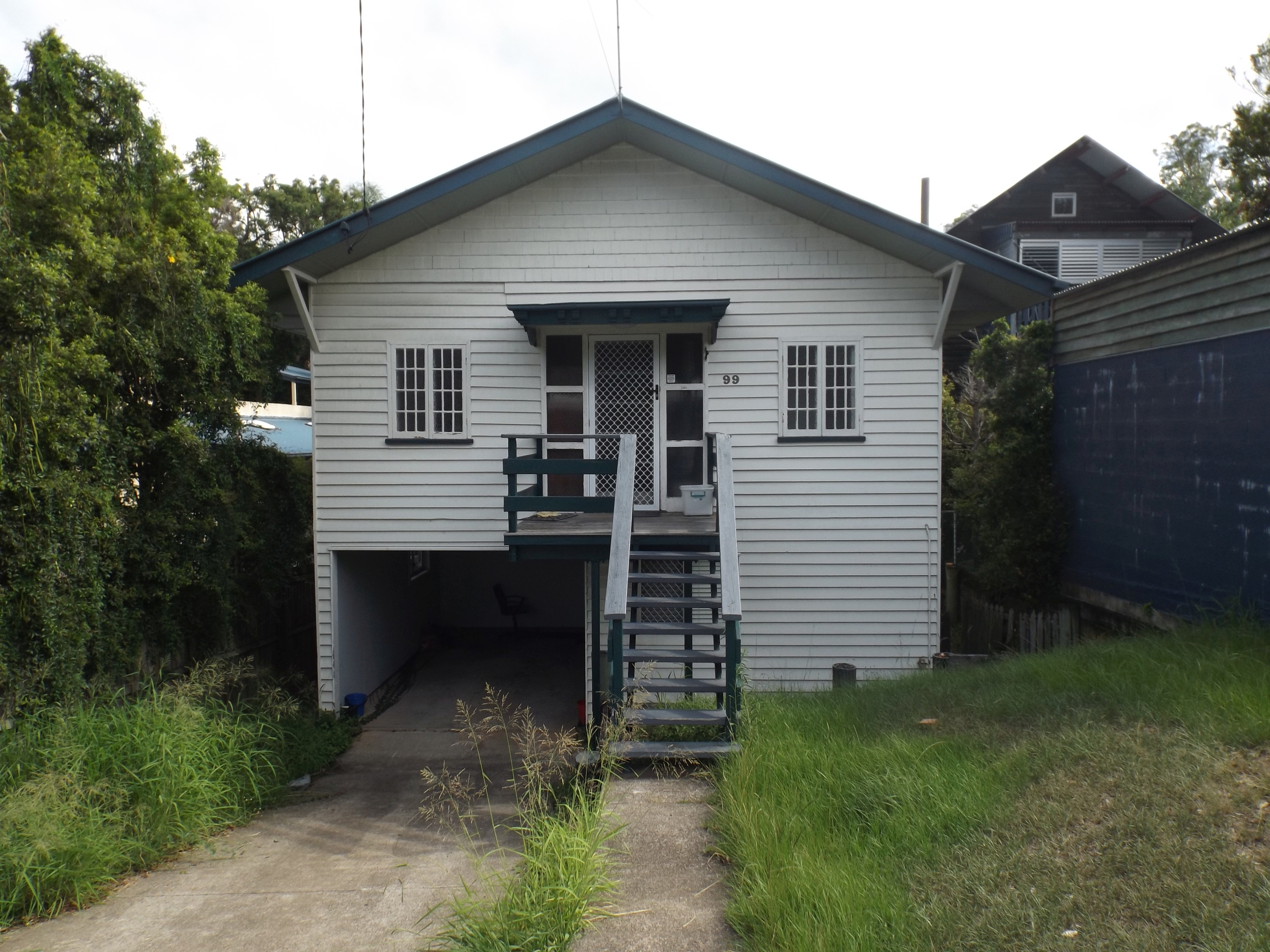 Photo of Vida and Jayne Lahey's House at St Lucia, Brisbane, Queensland, Australia.